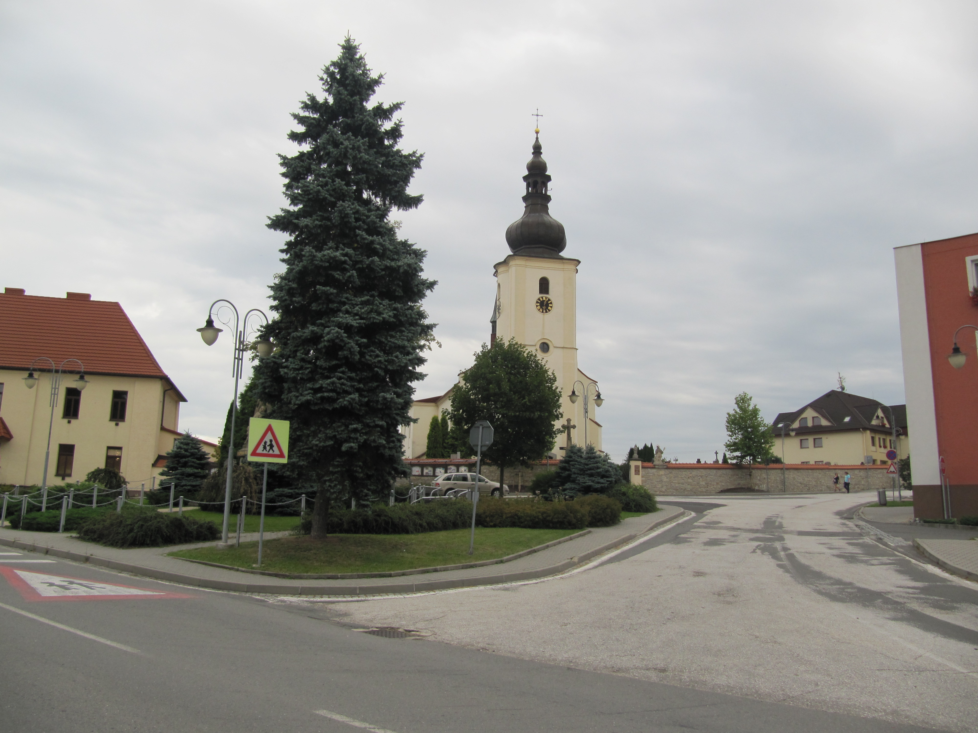 Staříč, Frýdek-Místek District, Czech Republic.